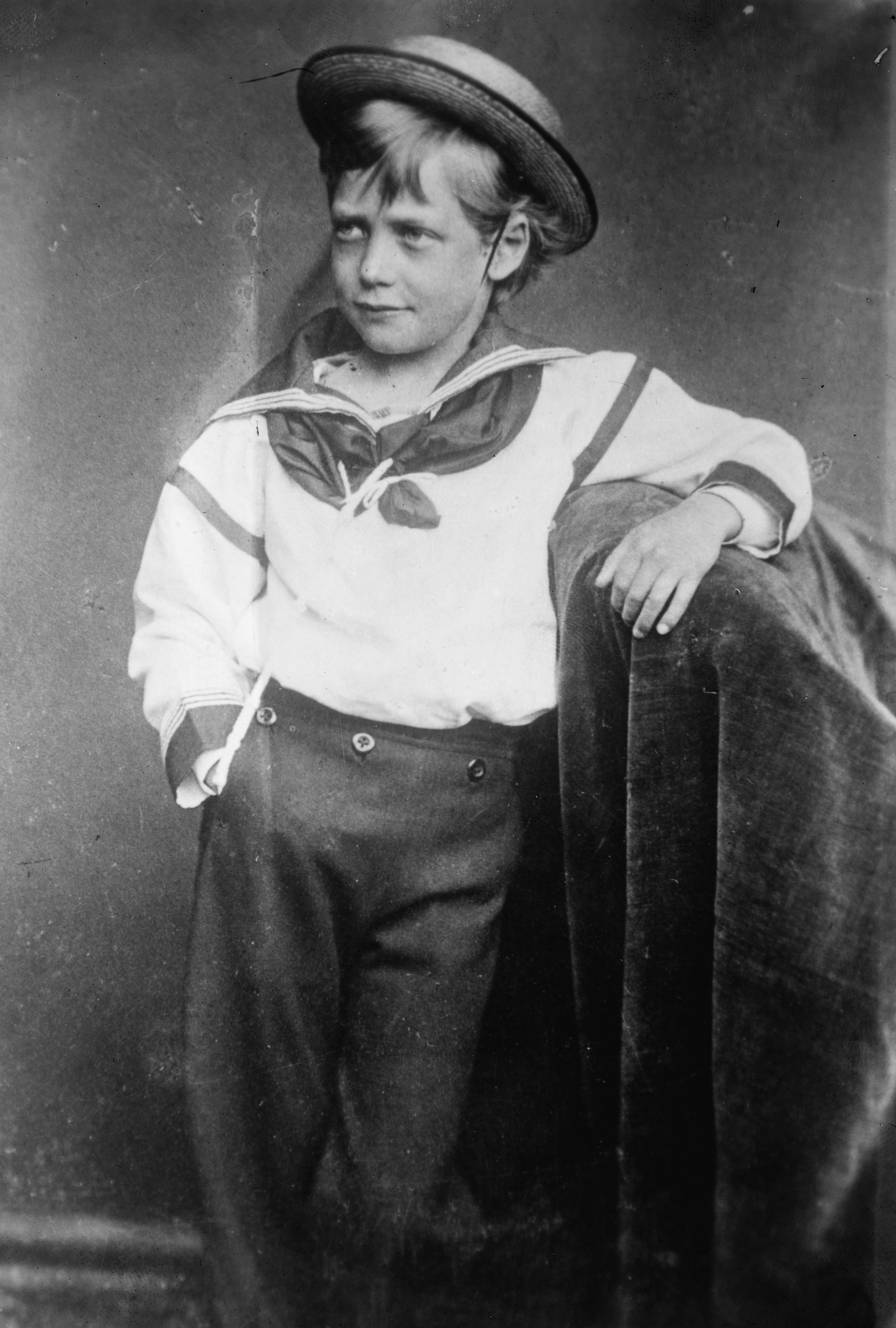 King George V of the United Kingdom as a young boy